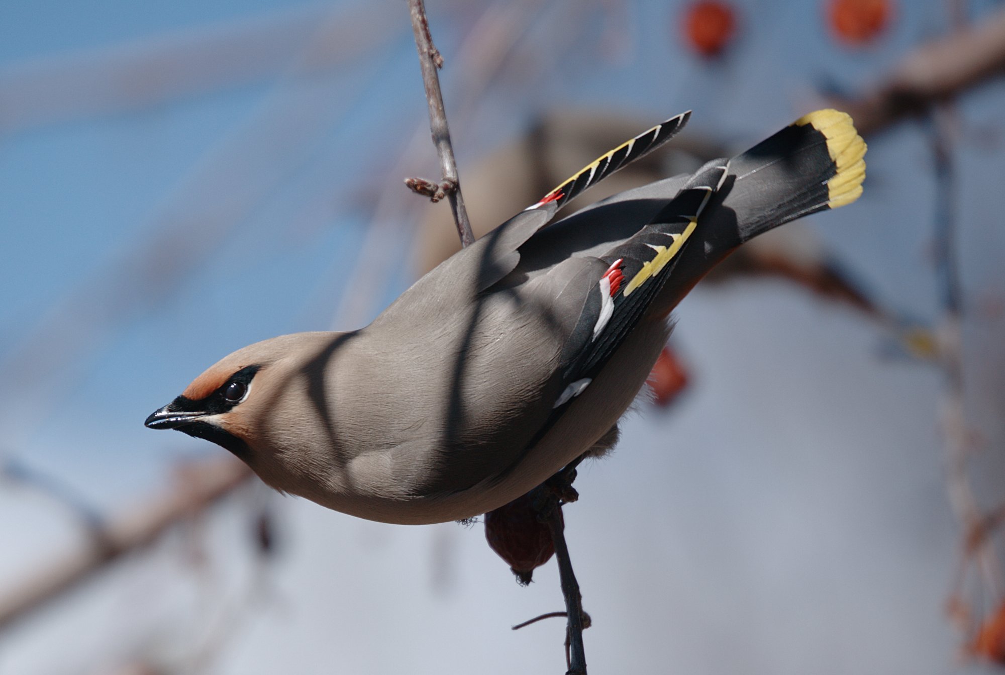 A Bohemian Waxwing